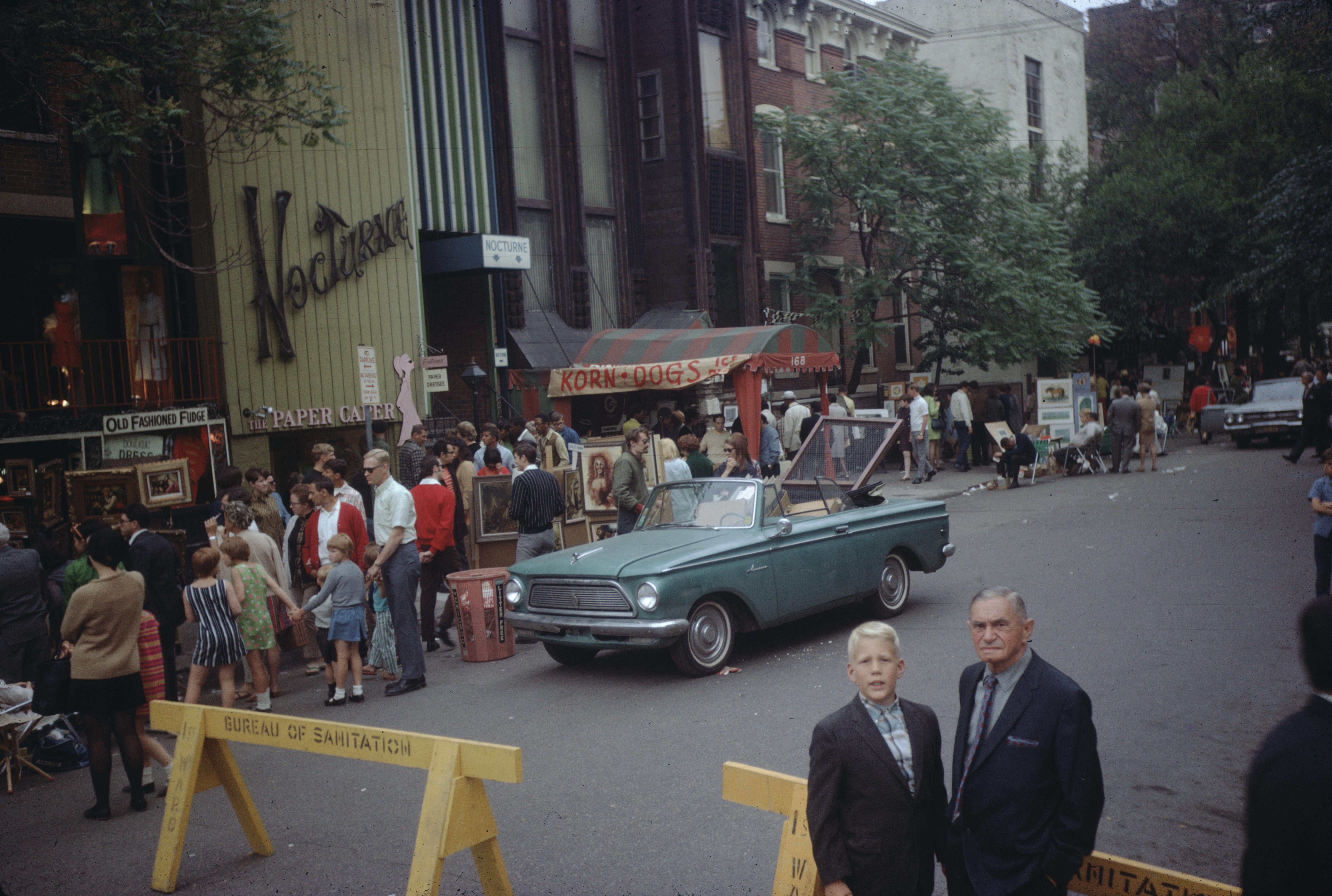 CyberViewX v5.16.55 Model Code=58 F/W Version=1.21 Photography by Victor Albert Grigas (1919-2017)